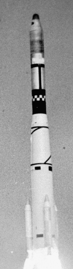 Thor SLV-2A Agena D rocket with Corona 68 satellite onboard